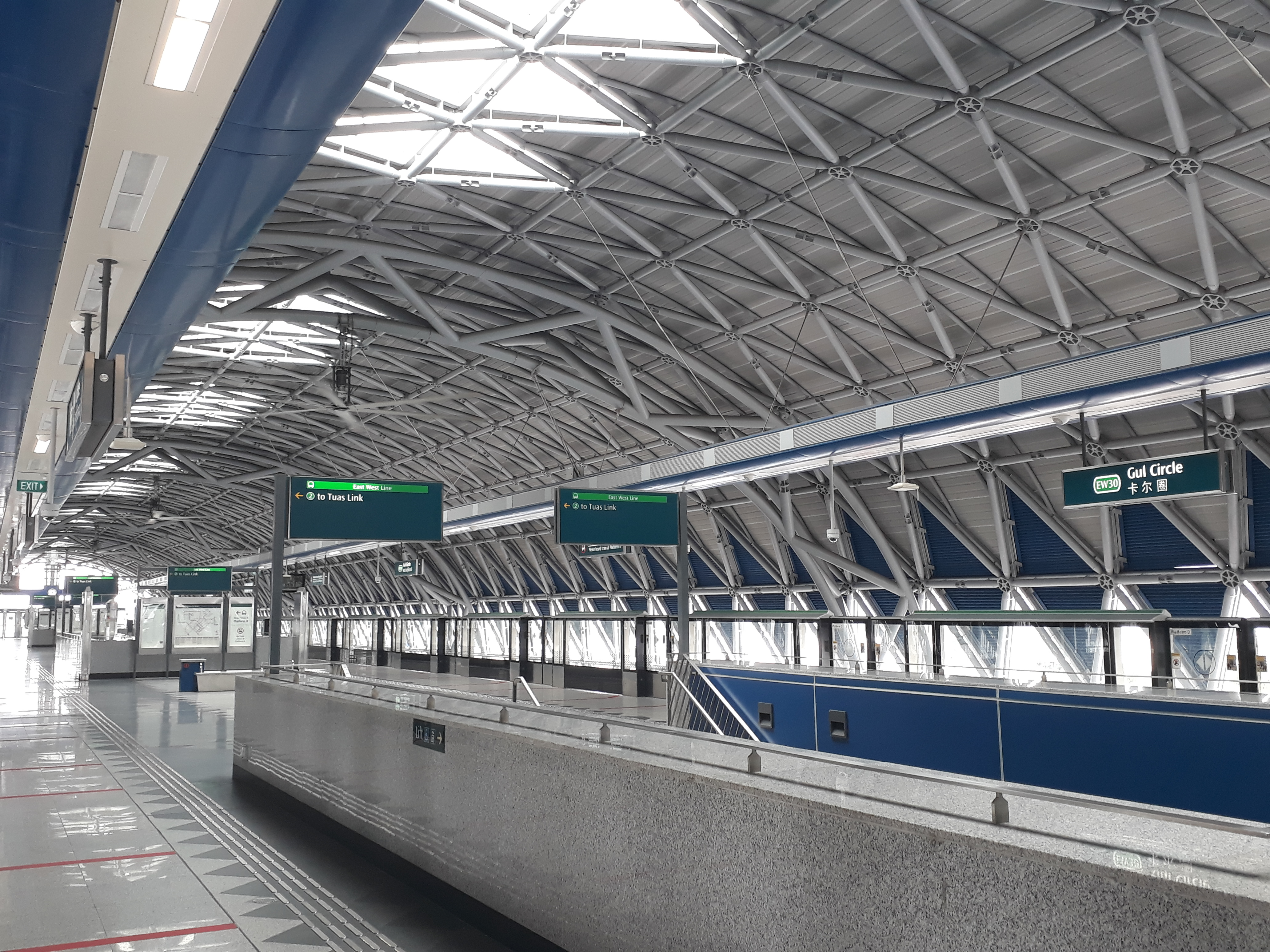 Platform D of Gul Circle